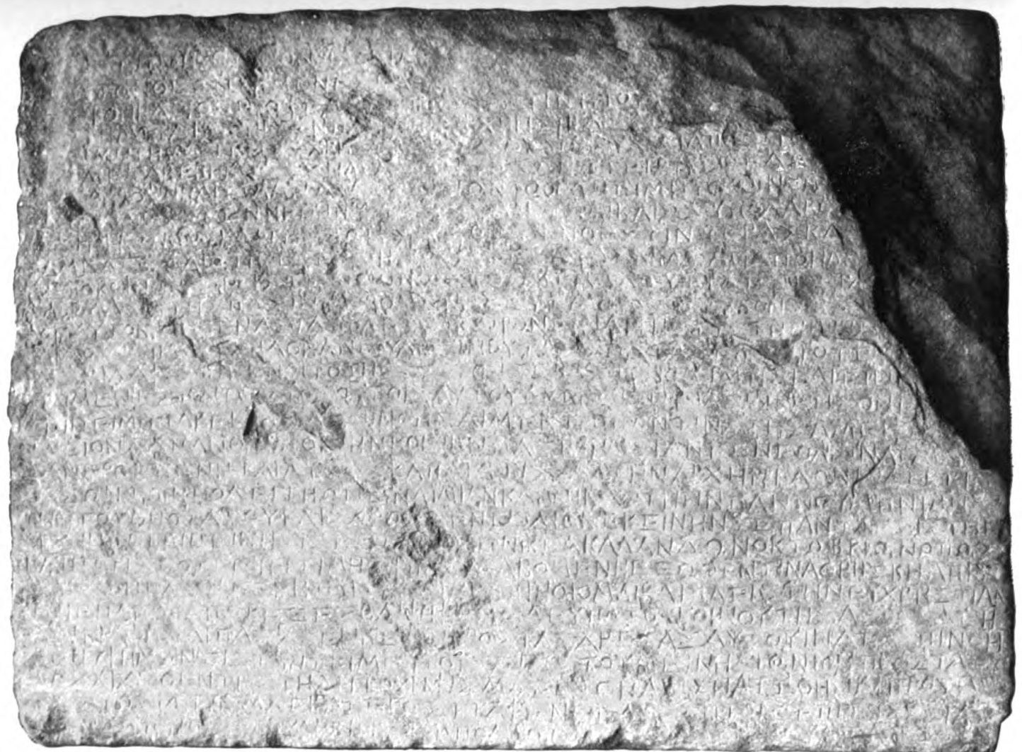 First part of the Priene Calendar Inscription